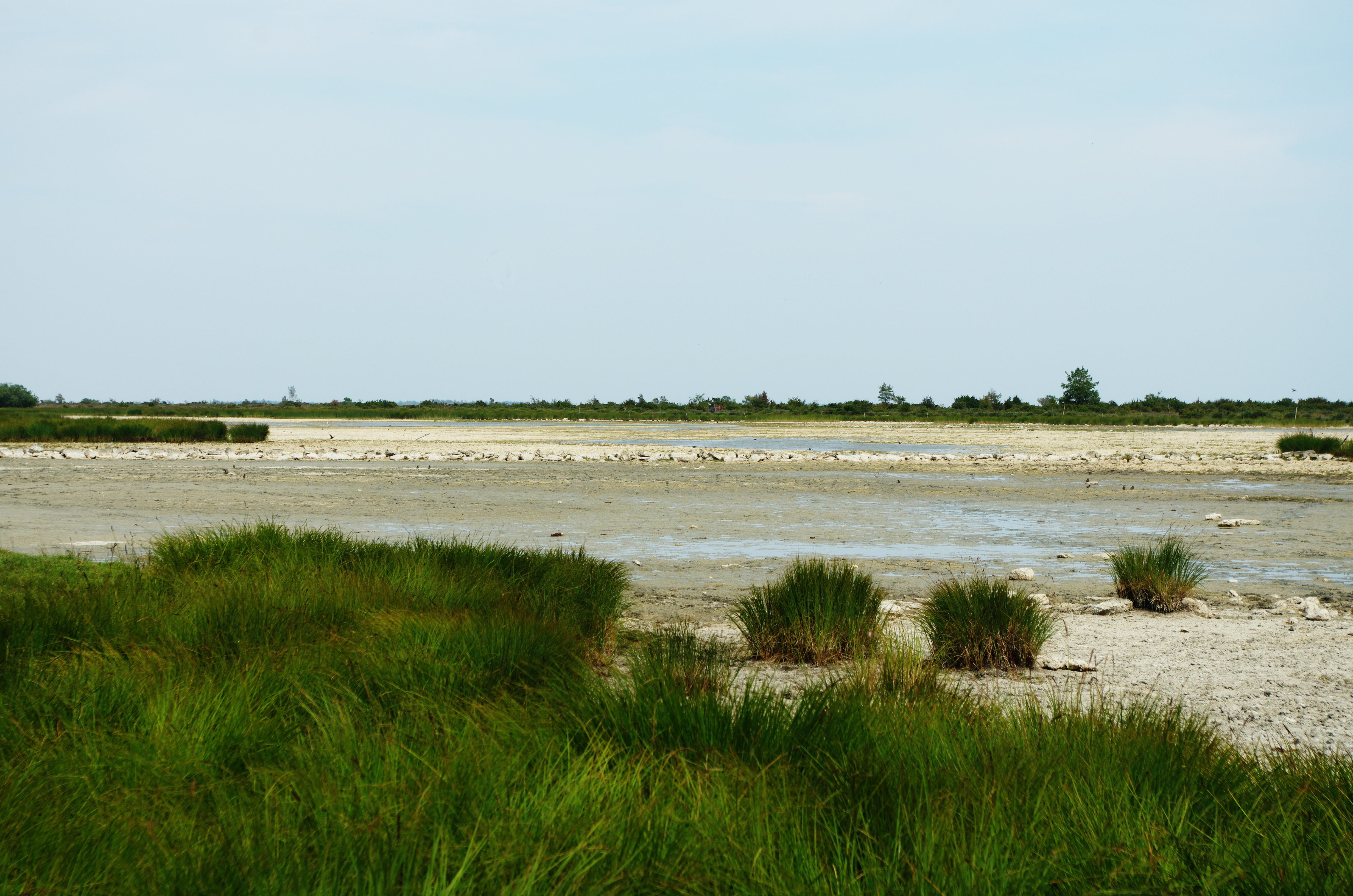 The lake Möckelmossen the hot an dry summer of 2018. Half the lake has dried out. The eastern half of the lake i situated i Gynge nature reserve.